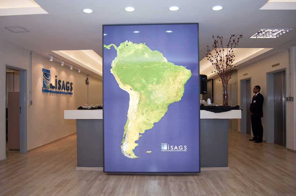 Overview of ISAGS